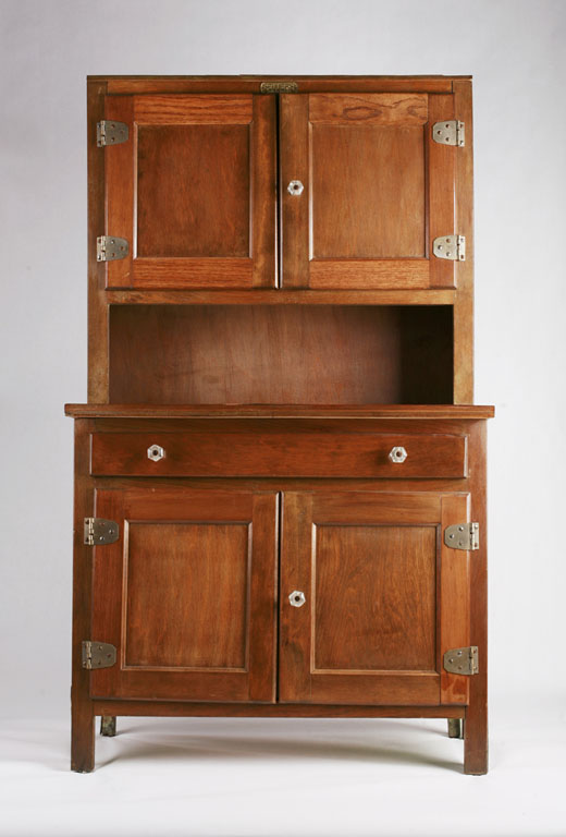 A Child size "Hoosier" cabinet in the permanent collection of The Children’s Museum of Indianapolis.